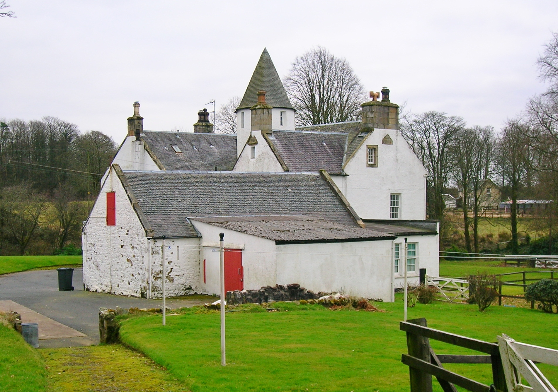 Monkredding House from the south, Kilwinning, North Ayrshire, Scotland